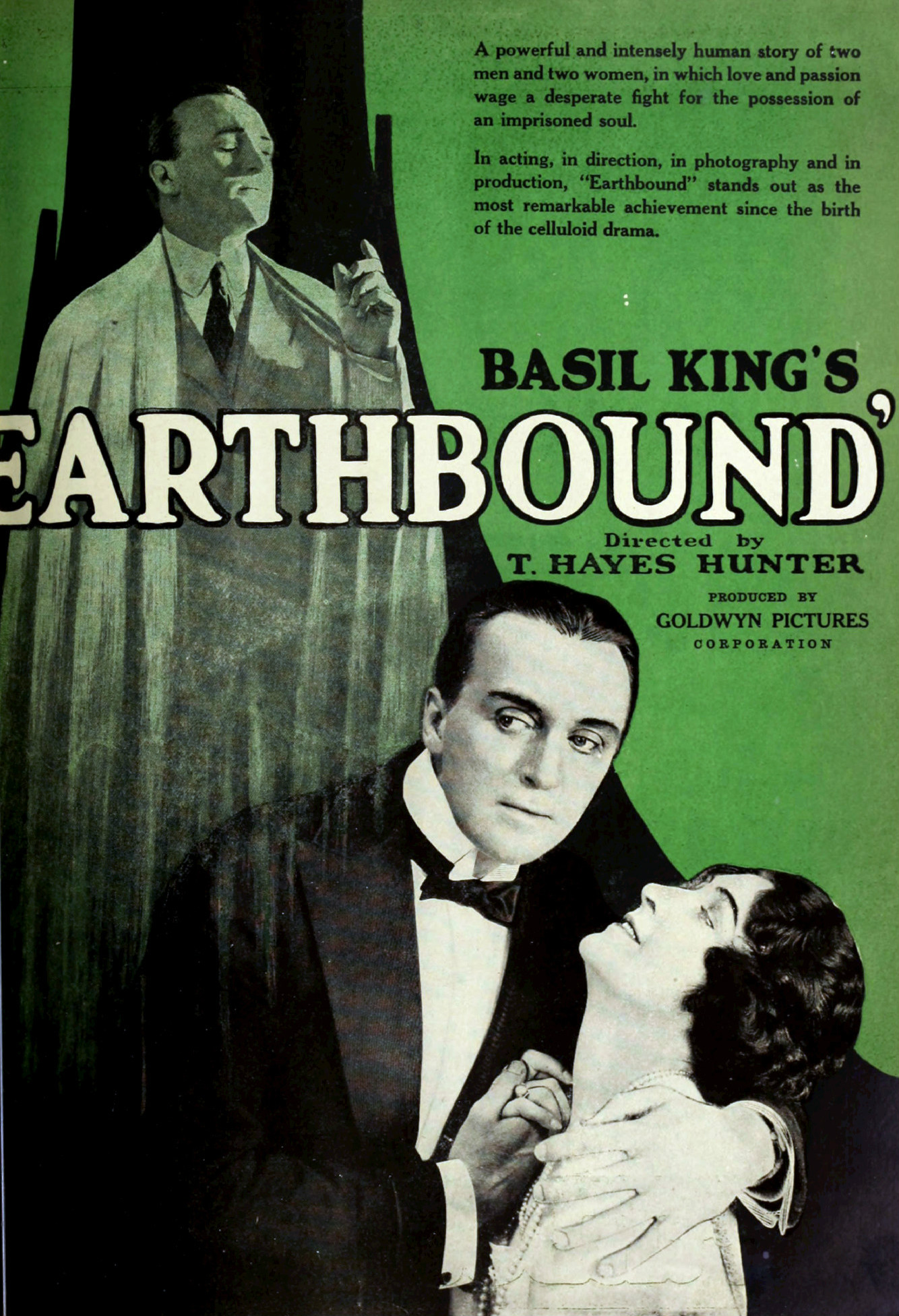 Advertisement for the American drama film Earthbound (1920).